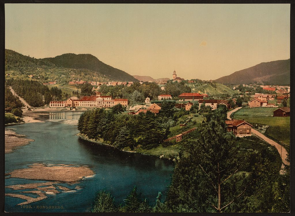 [Kongsberg, Buskerud, Norway] [between ca. 1890 and ca. 1900]. 1 photomechanical print : photochrom, color. Notes: Title from the Detroit Publishing Co., Catalogue J--foreign section. Detroit, Mich. : Detroit Publishing Company, 1905. Print no. 7090. Forms part of: Landscape and marine views of Norway in the Photochrom print collection. Subjects: Norway--Buskerud fylke. Format: Photochrom prints--Color--1890-1900. Repository: Library of Congress, Prints and Photographs Division, Washington, D.C. 20540 USA, Part Of: Landscape and marine views of Norway (DLC) 2001699563 More information about the Photochrom Print Collection is available at Persistent URL: Call Number: LOT 13432, no. 131 [item]